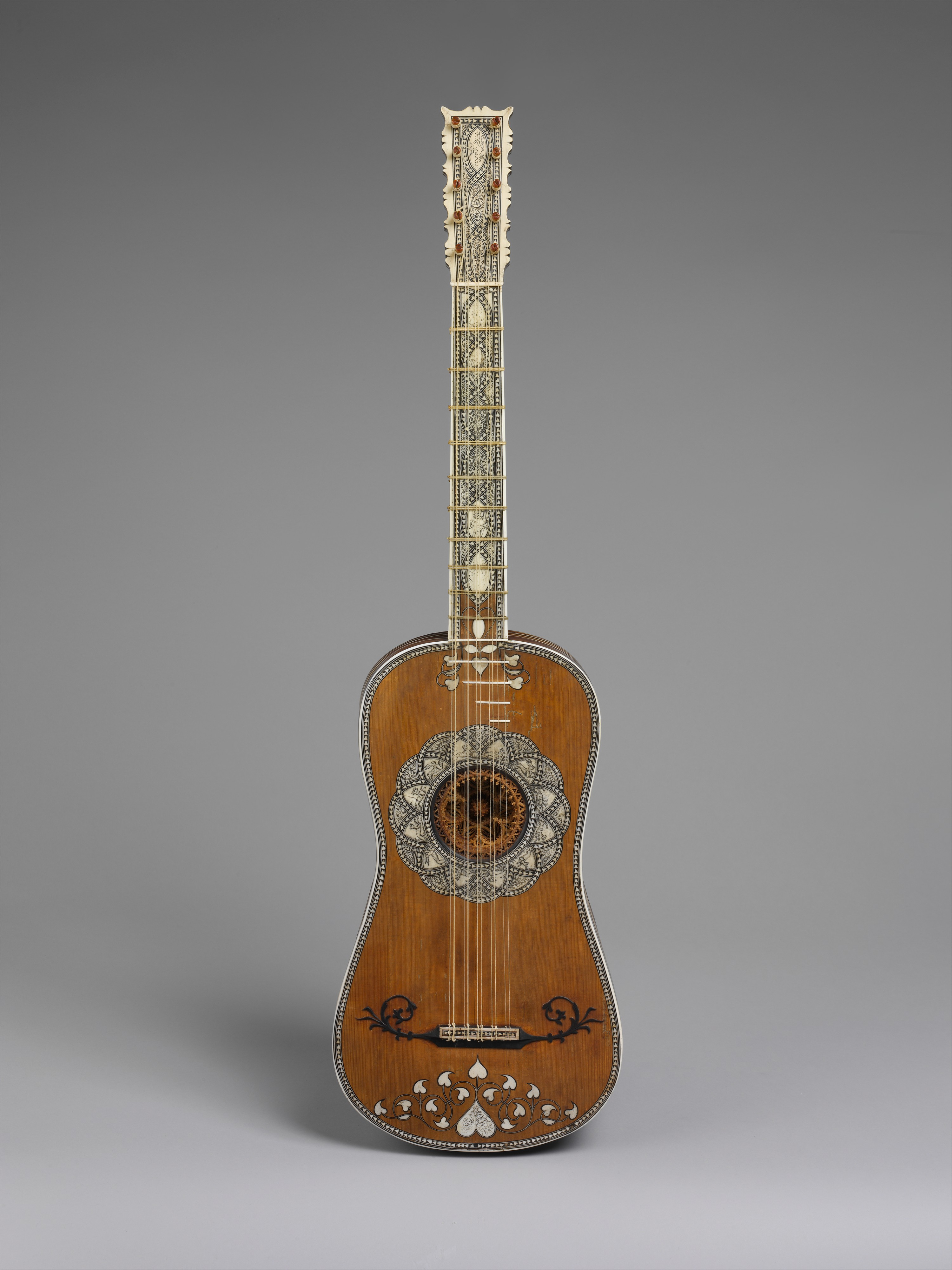 Italian; Guitar; Chordophone-Lute-plucked-fretted